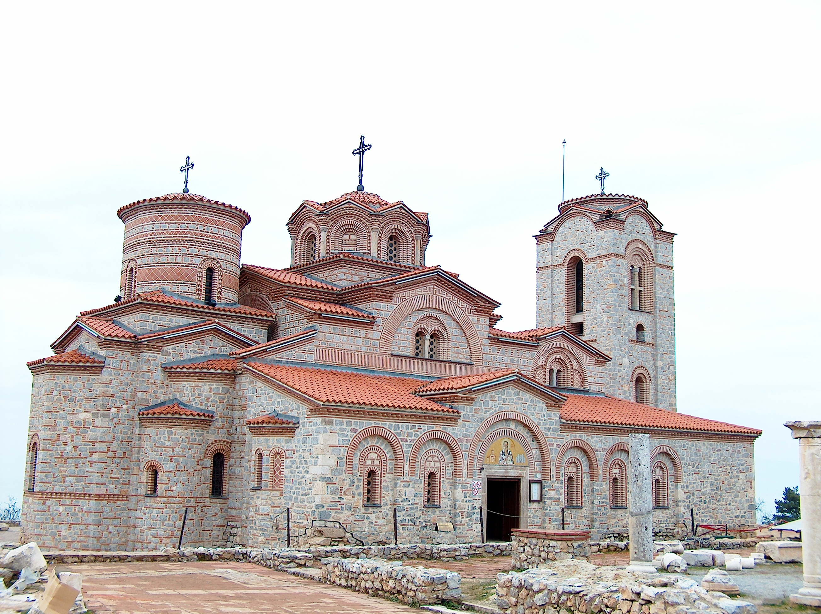 The Church of St. Kliment & St. Panteleymon at Plaoshnik in Ohrid, Republic of Macedonia